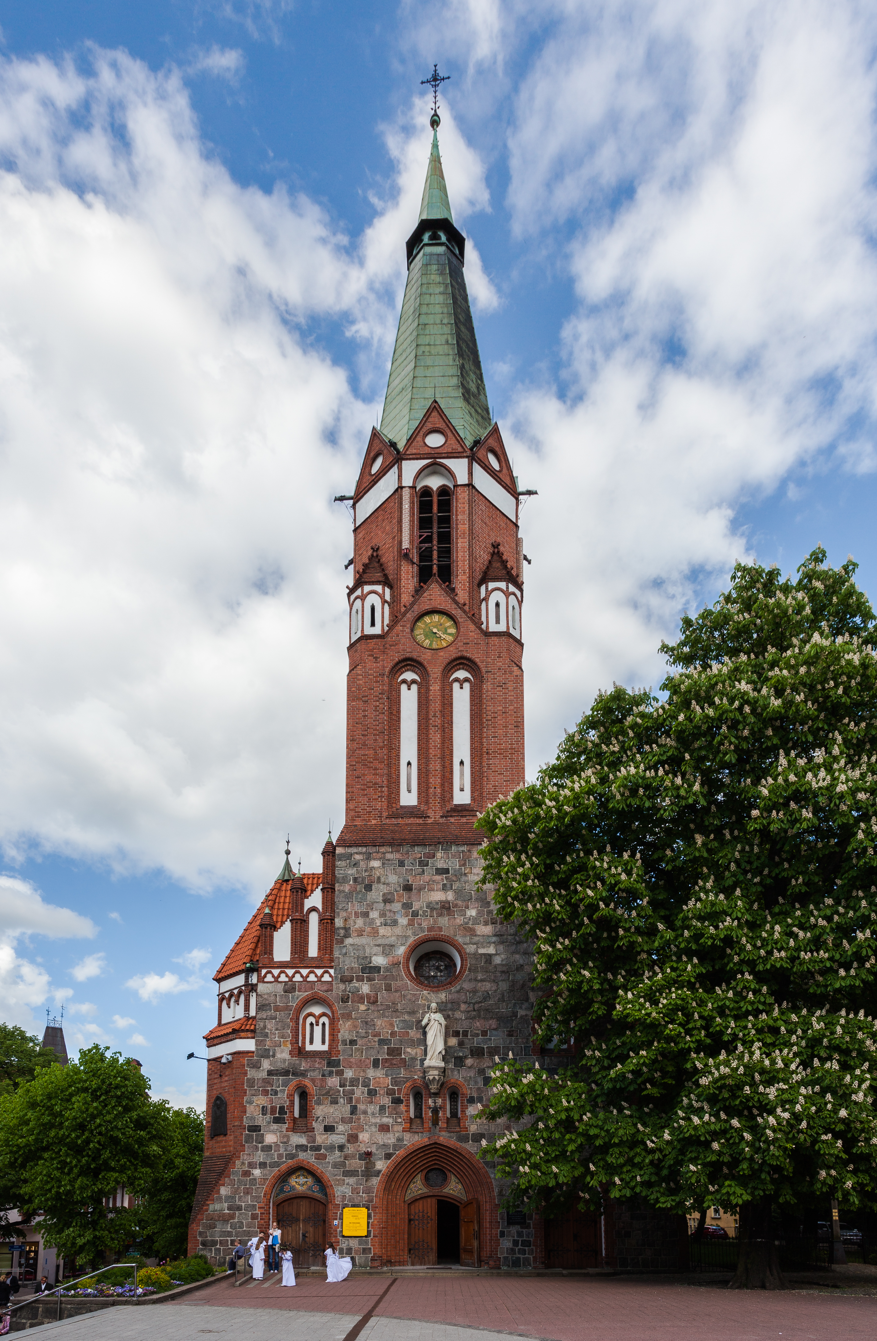 Saint George church, Sopot, Poland